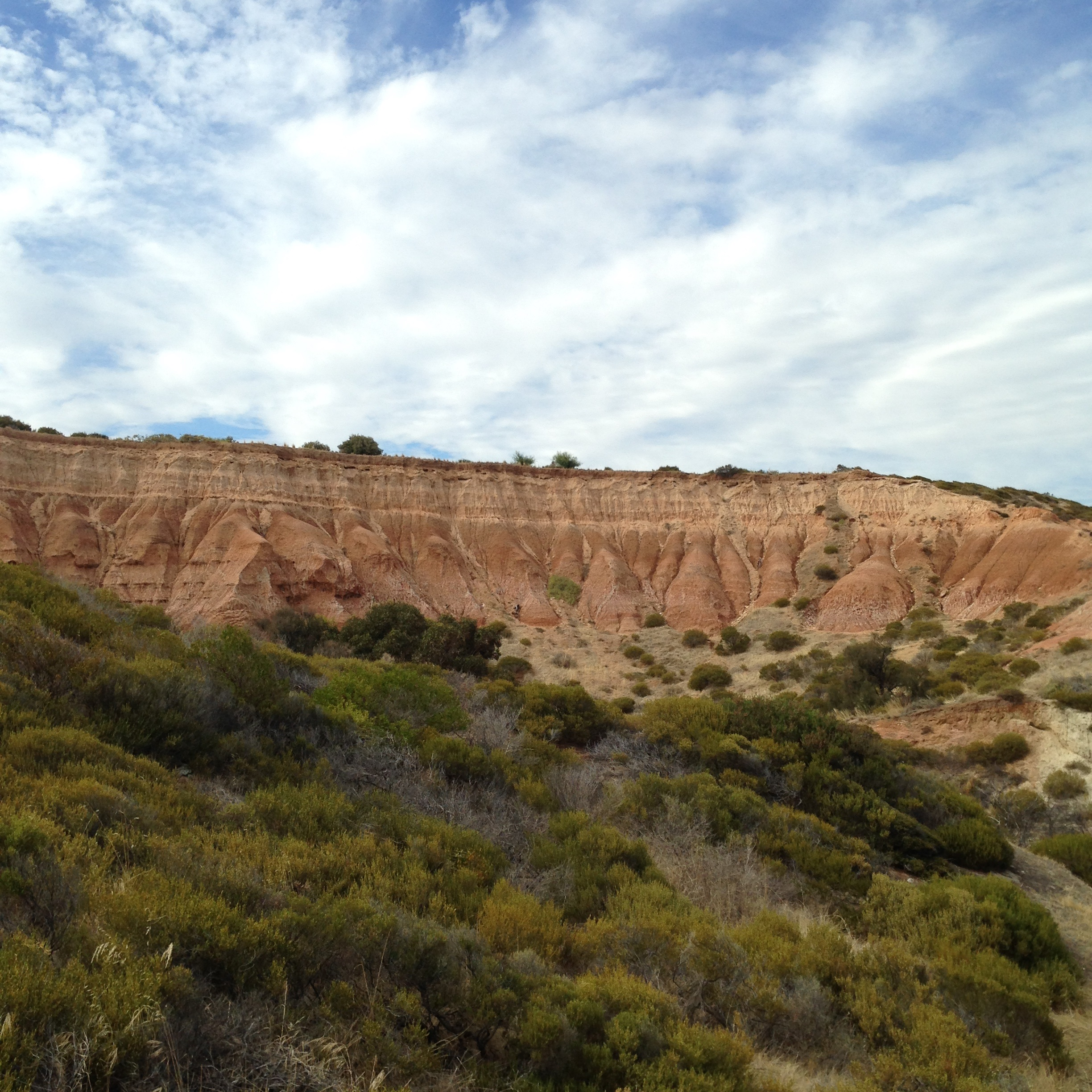 An image of the Amphitheatre